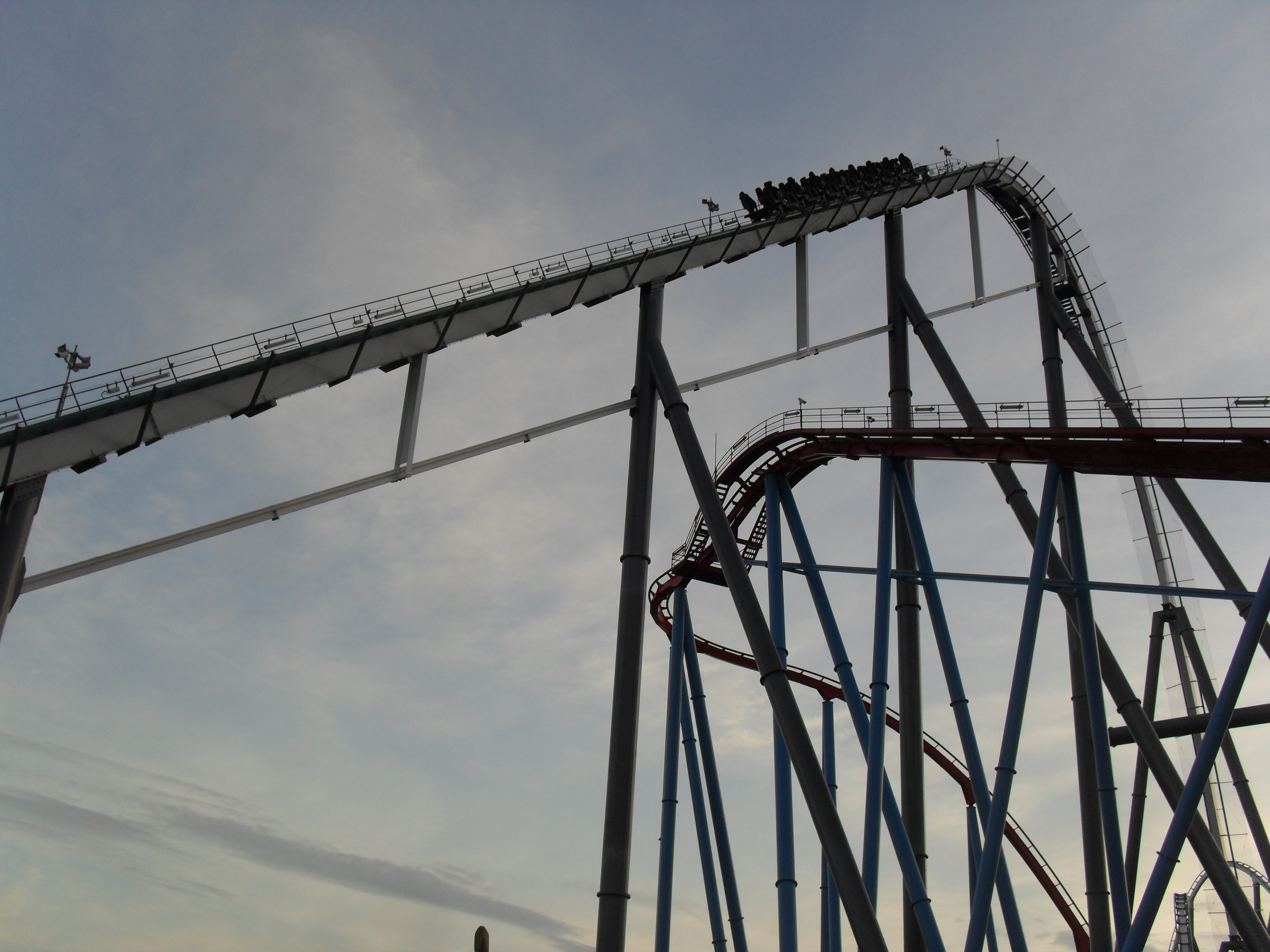 Lift hill of the roller coaster Shambhala at Port Aventura, Spain